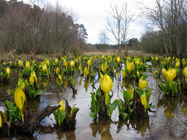 Lysichton americanus (American Skunk Cabbage), in Lochnabo Burn, at the southern edge of Loch Na Bo, in Scotland.